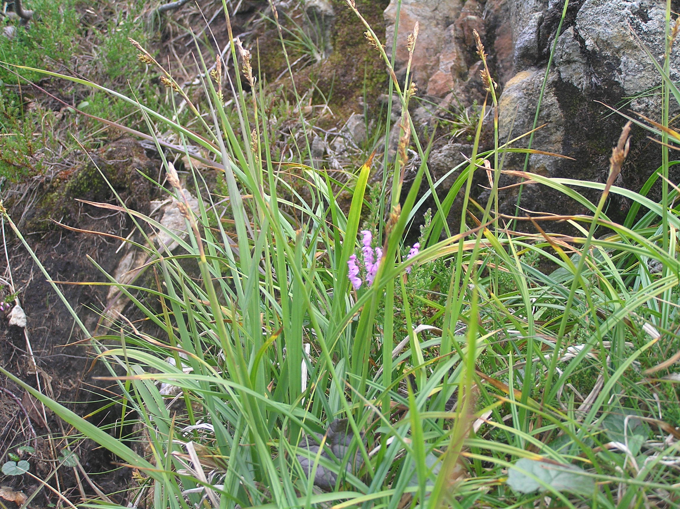 Carex vaginata, Studniční stěna, Krkonoše, Czech Republic